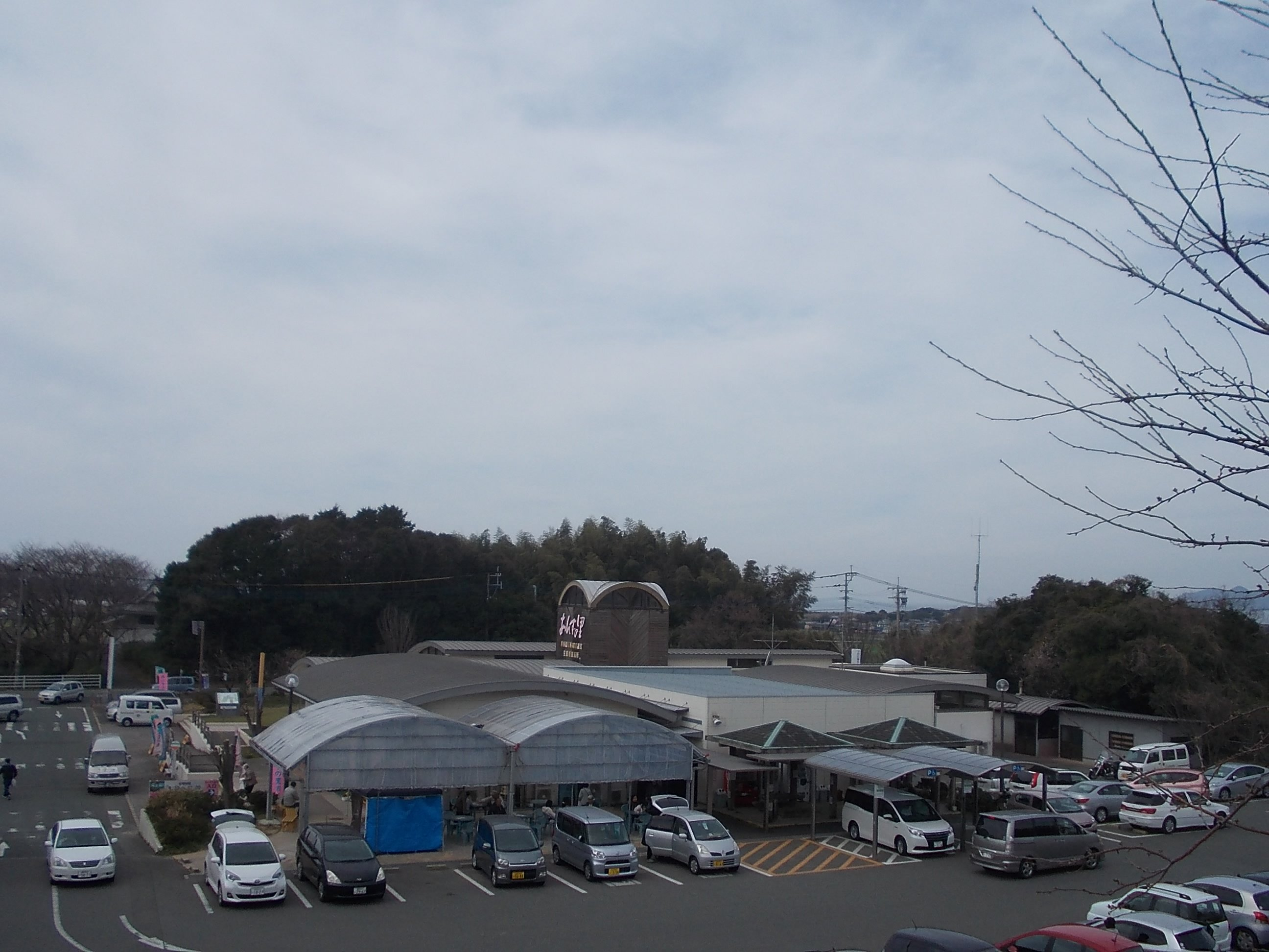 Anzu-no-sato is a farmers' market located along National Highway 495 in Fukutsu City, Fukuoka, Japan. A shop sells local produce, snacks, souvenirs, and other goods.